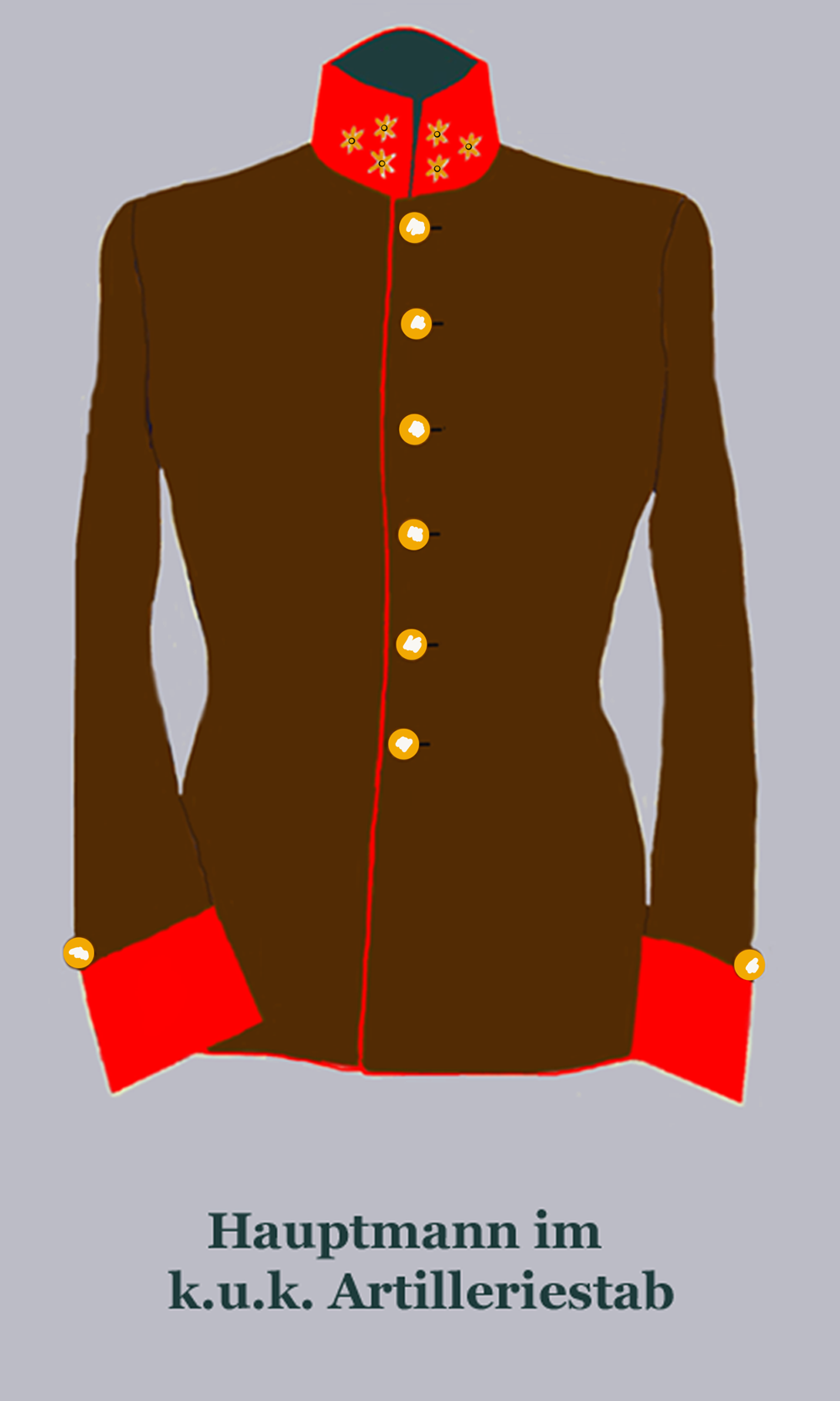 Tunic of an Captain of the Austria-Hungarian k.u.k. Artillery-Office